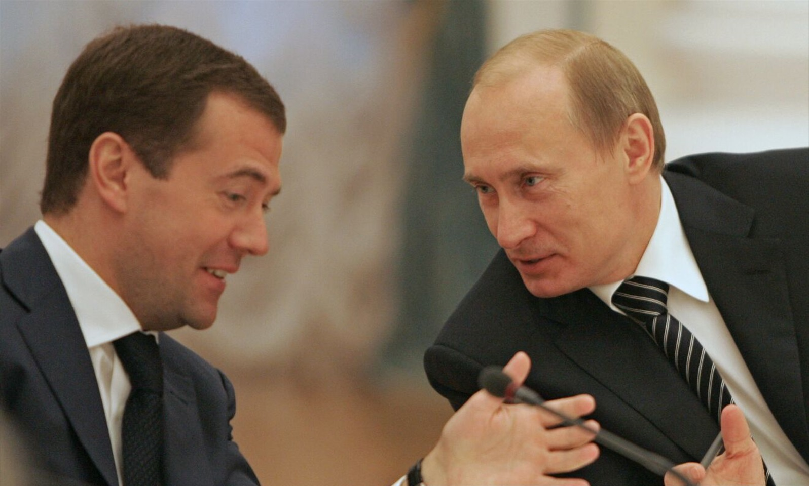 THE KREMLIN, MOSCOW. With President-Elect Dmitry Medvedev at the Meeting with State Duma Leadership and Faction leaders.